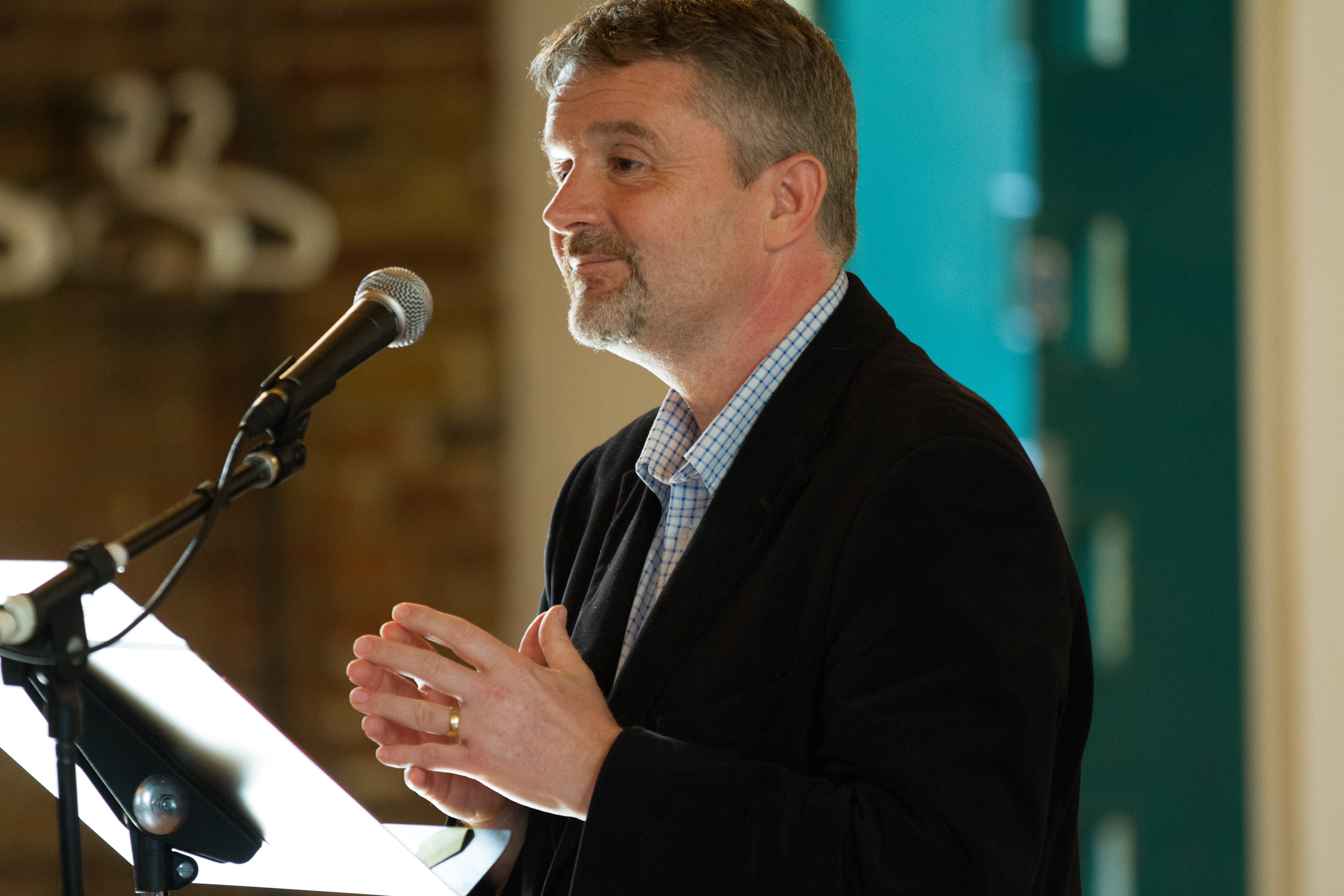 Dean of Christ Church Martyn Percy